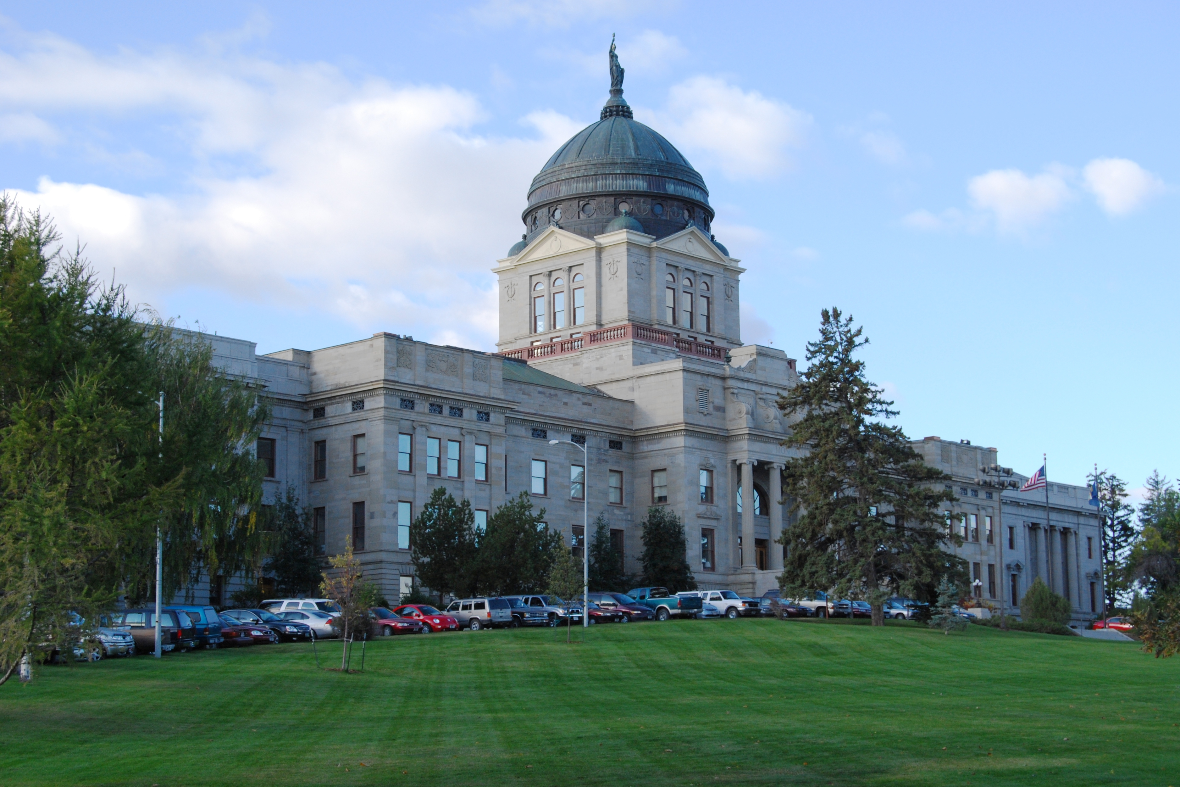 Montana State Capitol